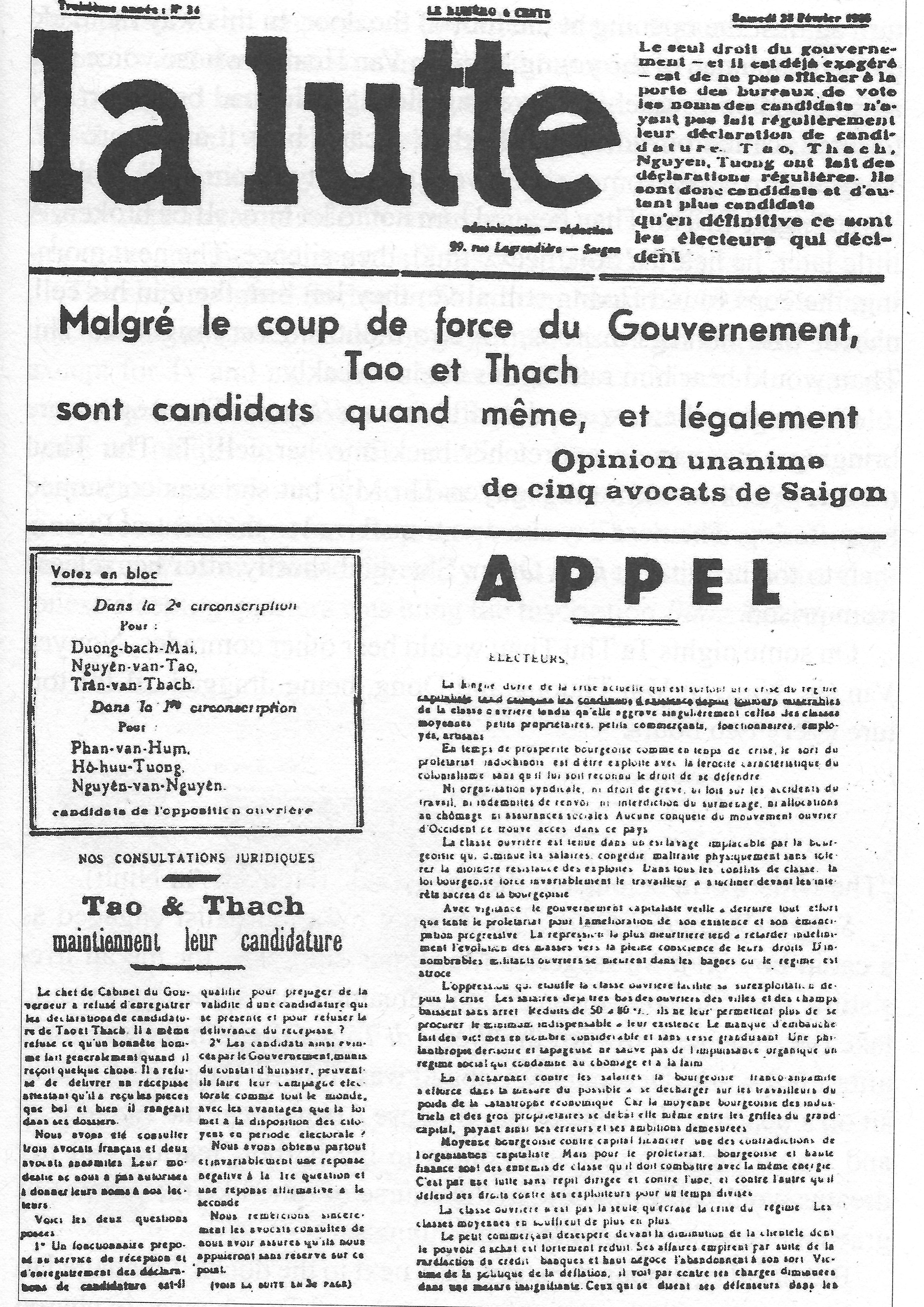 23 February front page of the La Lutte paper published in Saigon (Ho Chi Minh City) between 1933 and 1939.